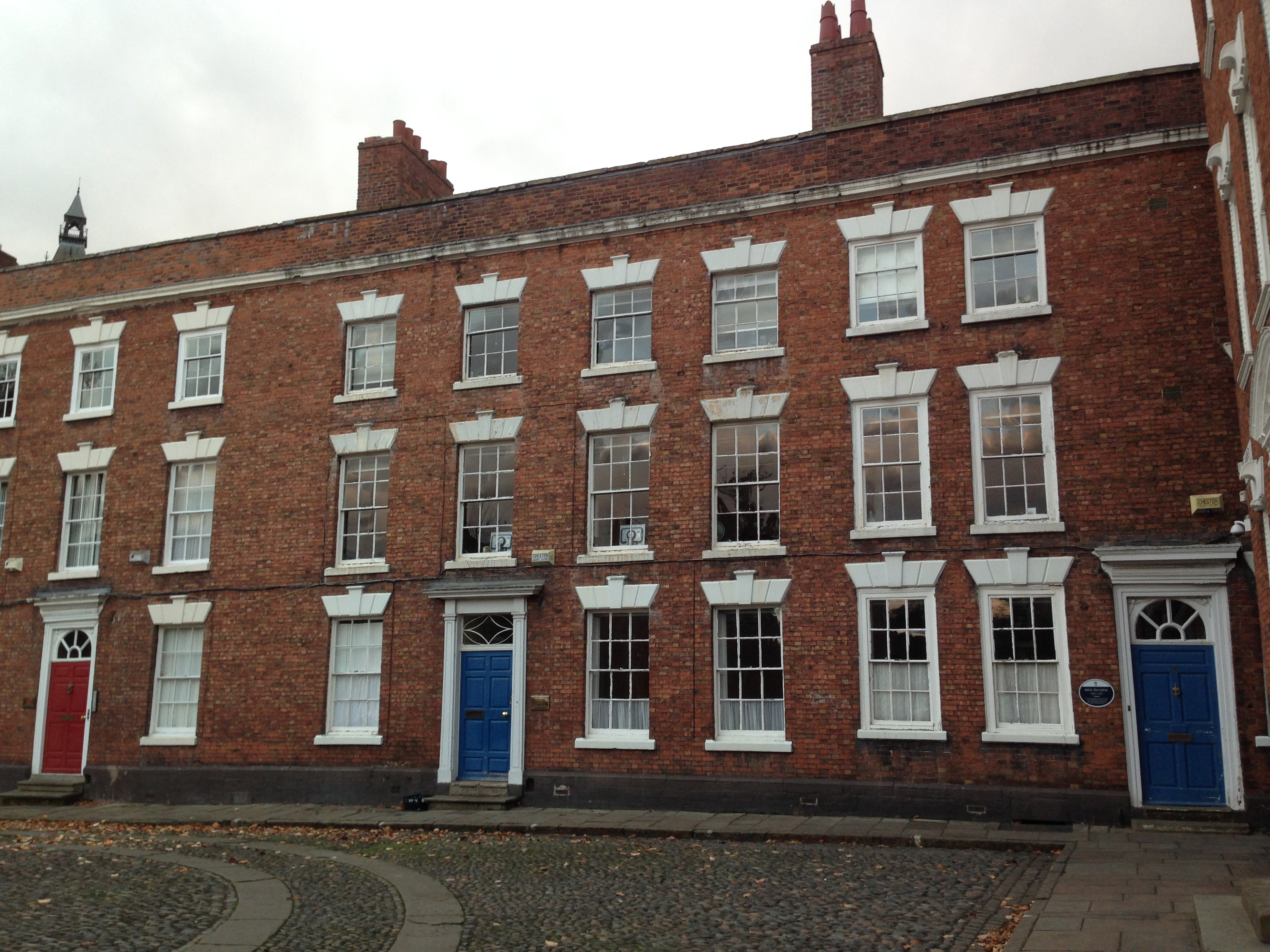 4, 5 and 6 Abbey Square